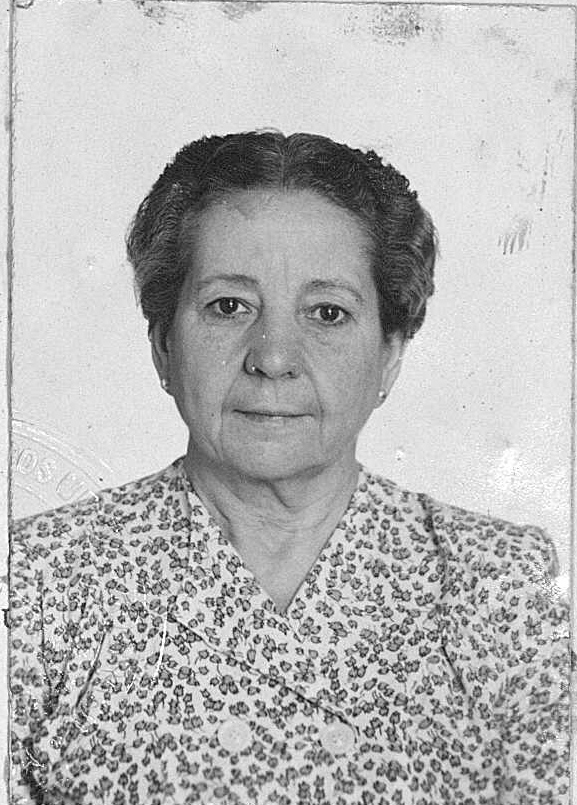 Carminda da Conceição Silva Rodrigues, passport photo, Lisboa, 1940s.